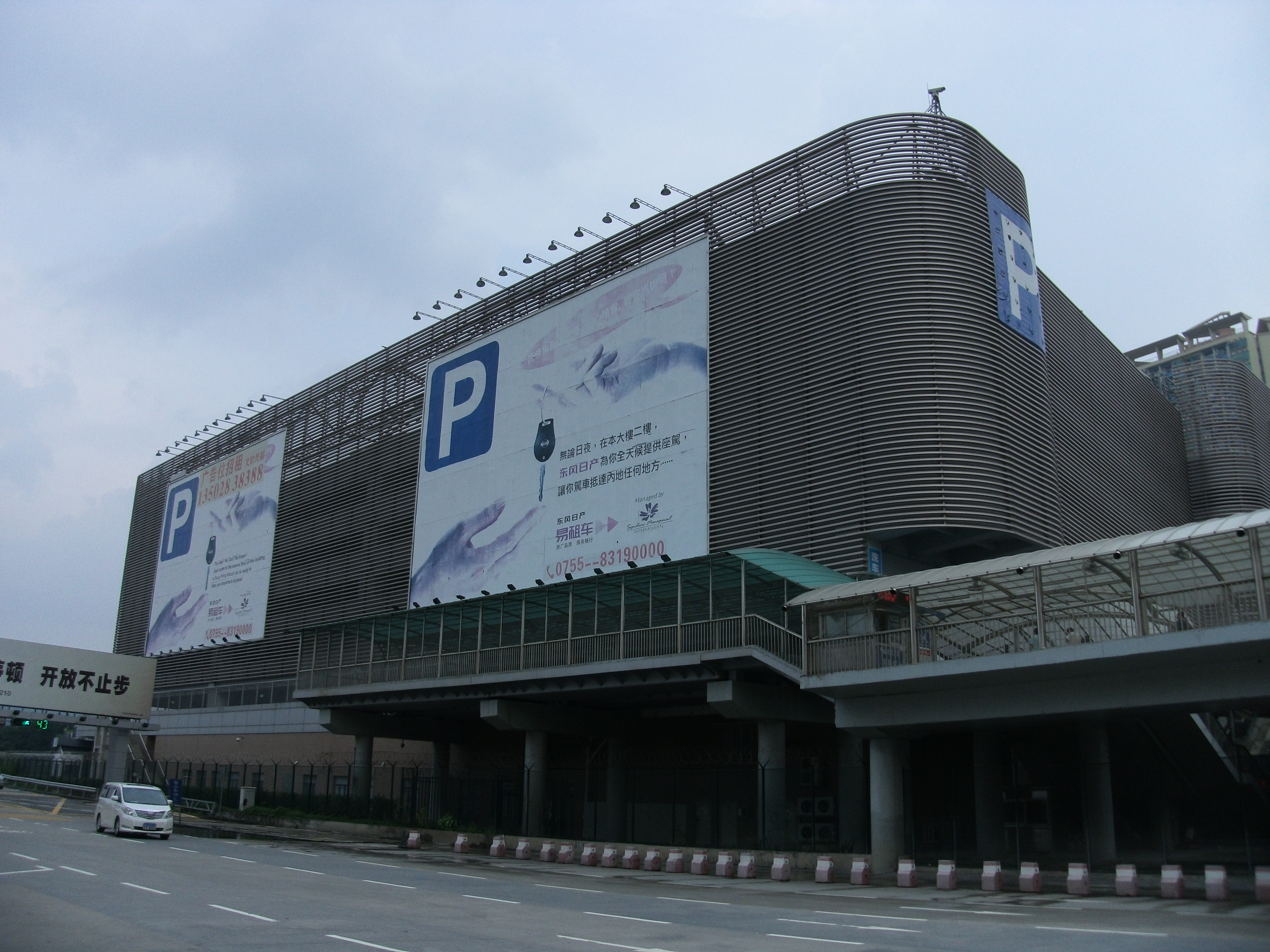 huanggang port export tower